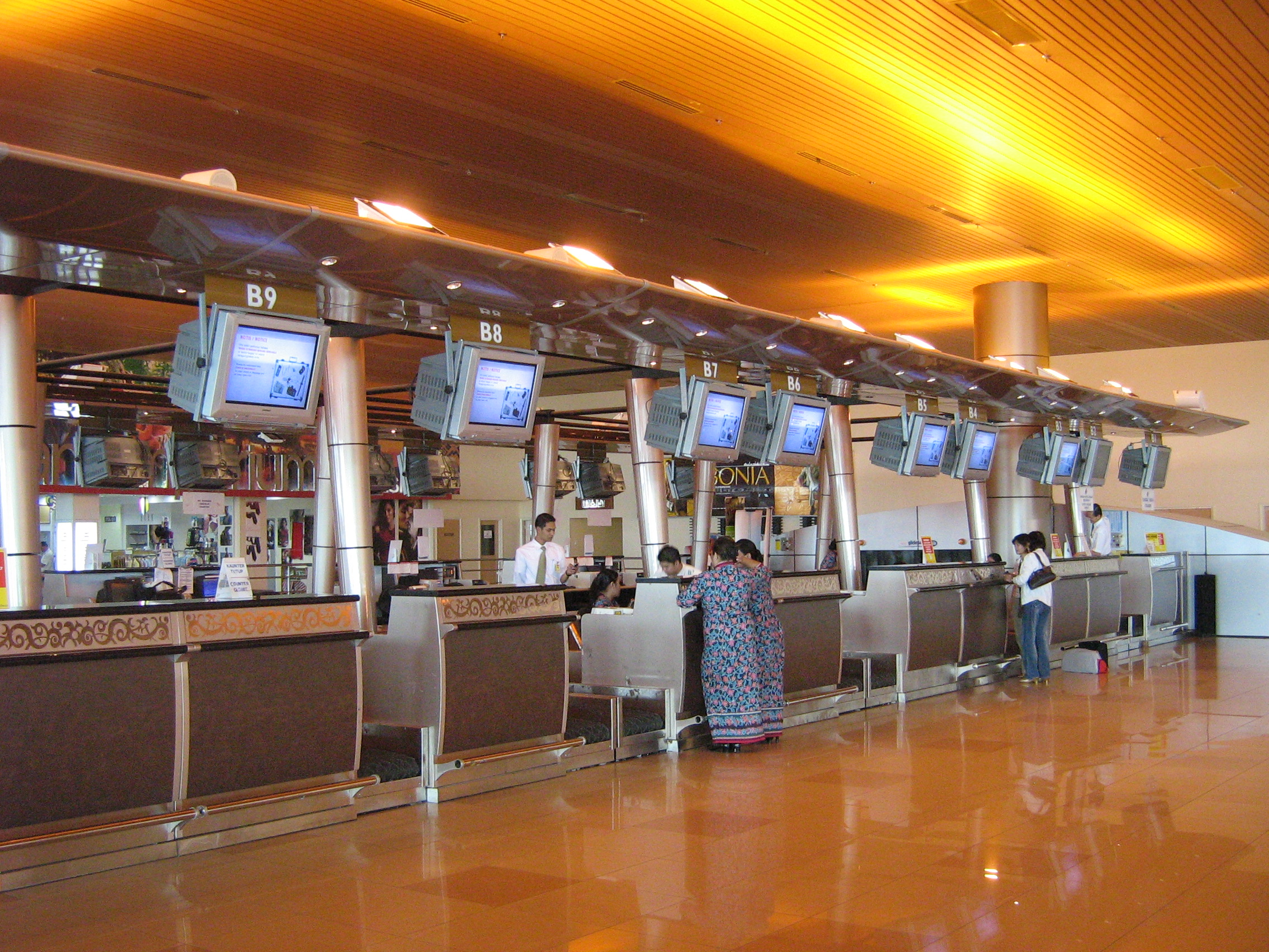 Kuching airport check-in